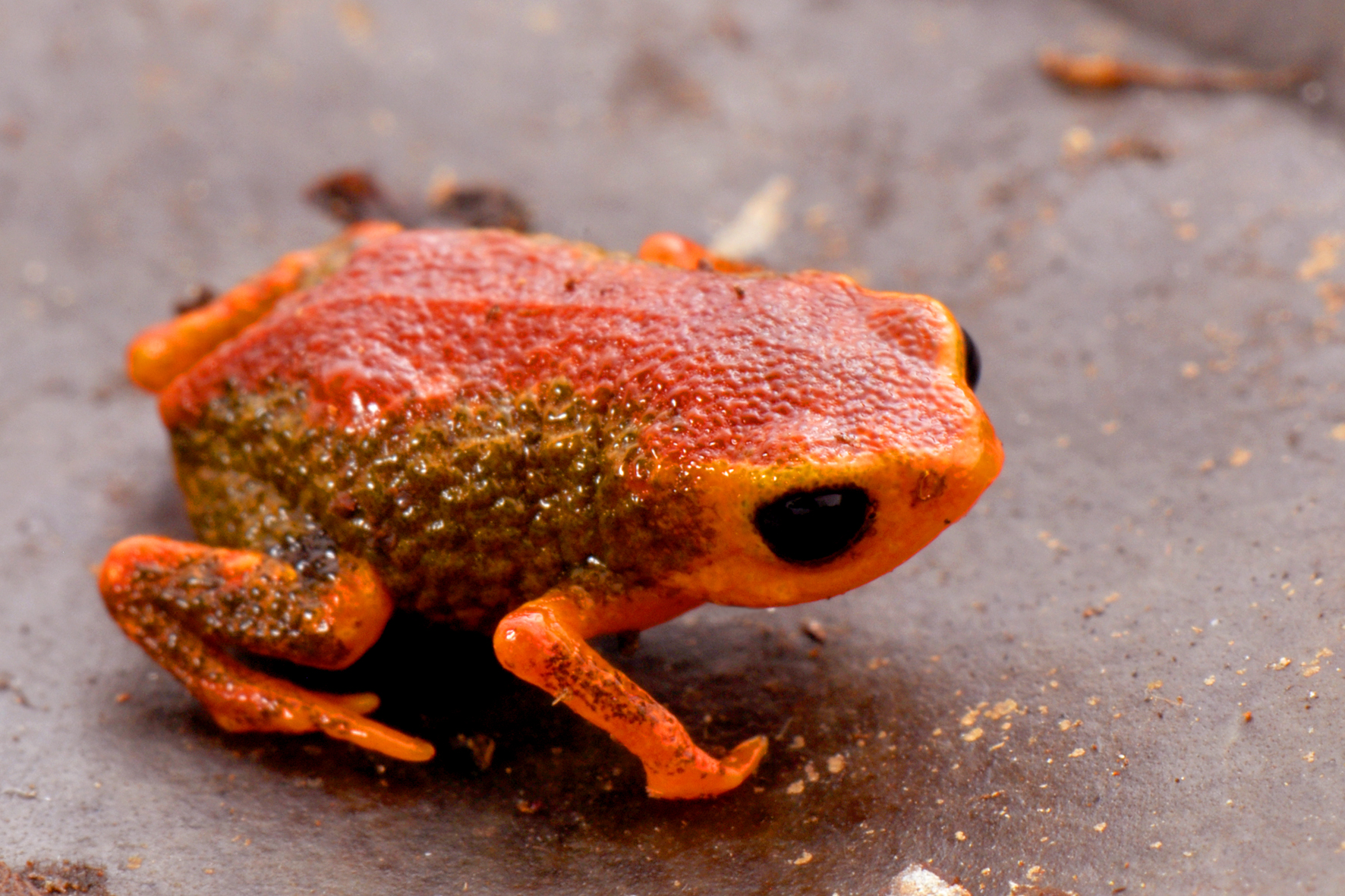 Holotype of Brachycephalus coloratus in life (MHNCI 10273).